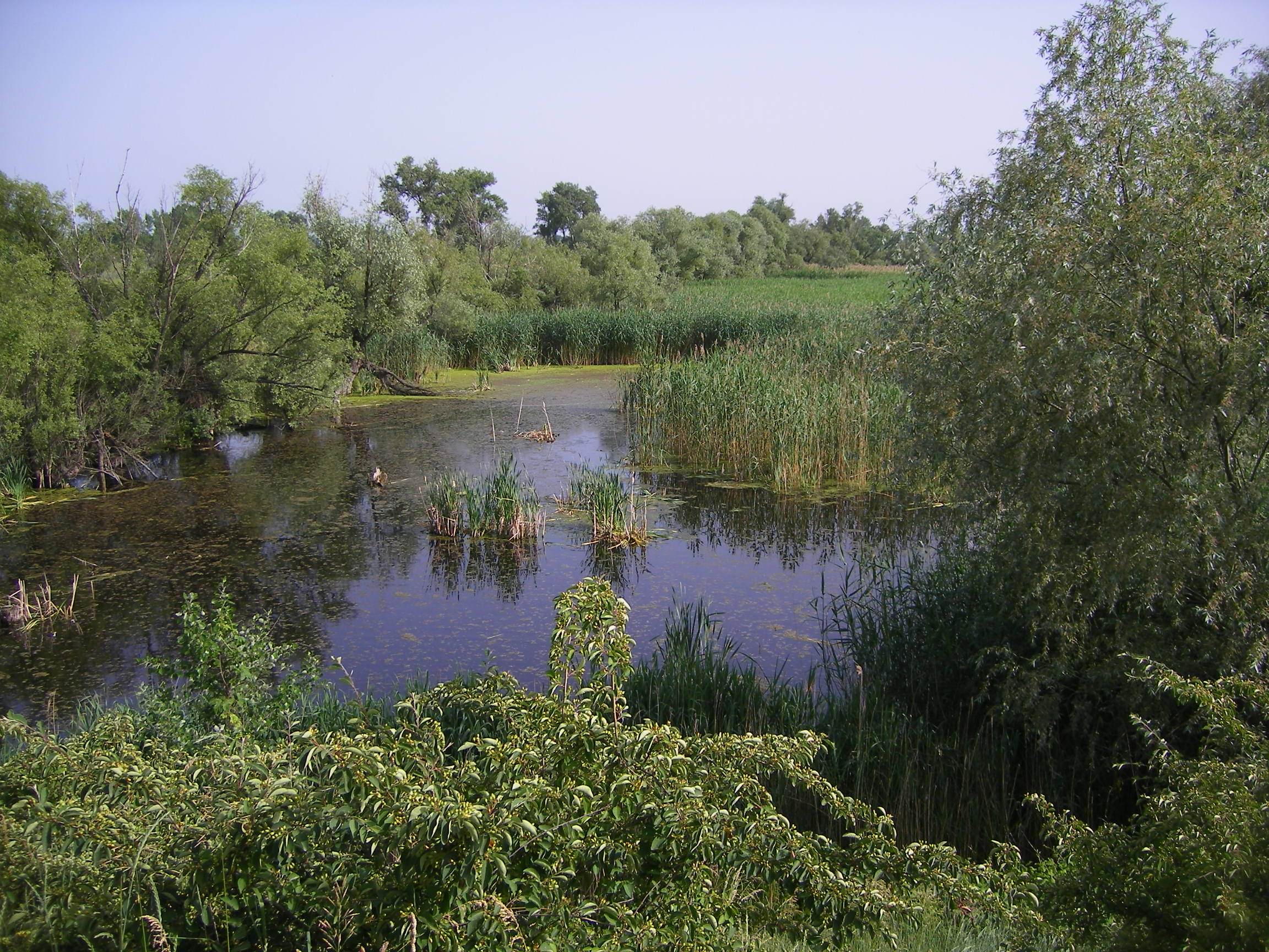 Martos (Martovce) - the alluvium of the Zsitva (Žitava) river